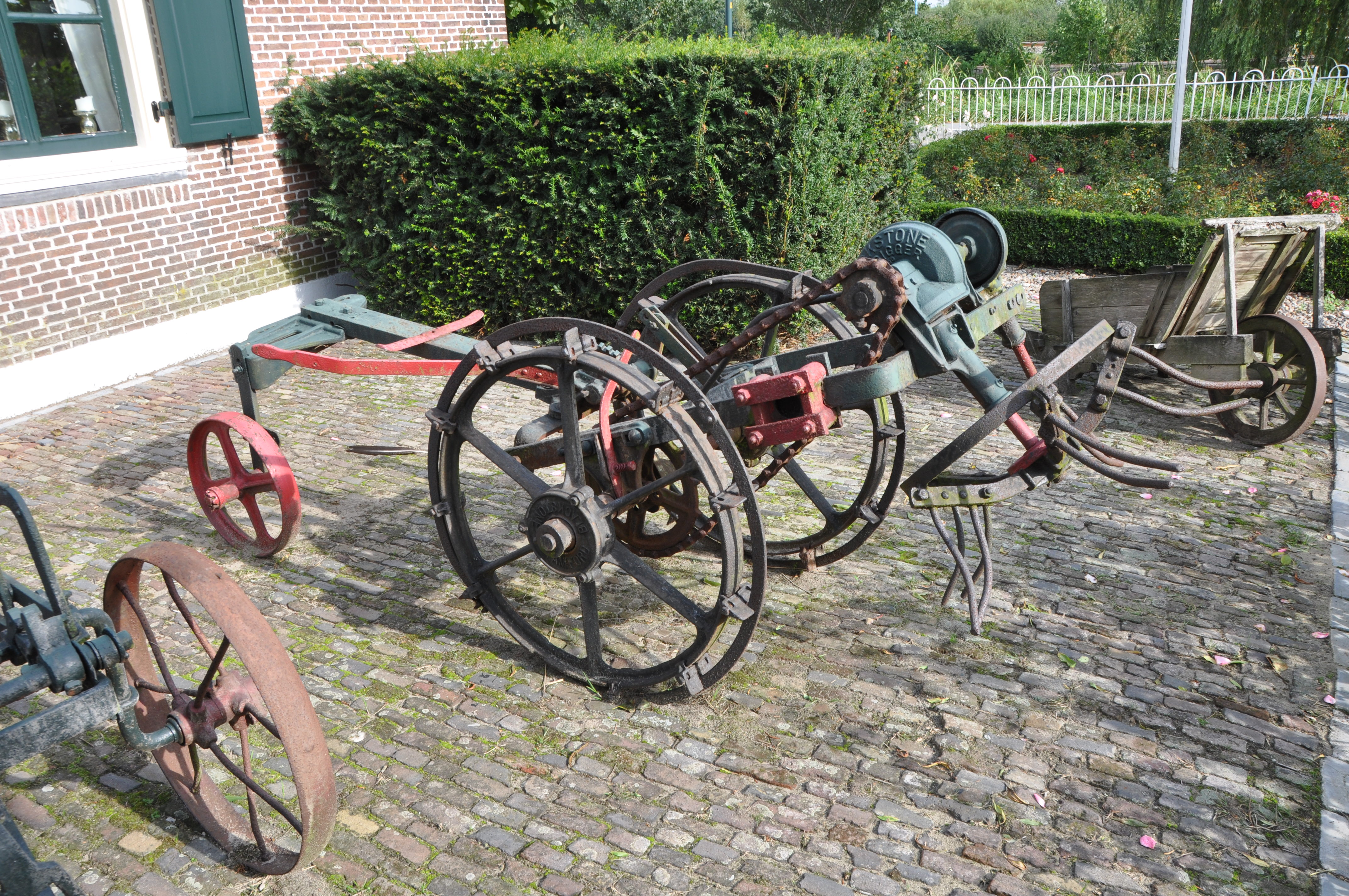 An old Blackstone potato digger in Zoetermeer, the Netherlands. Blackstone & Co. was an English farm implement manufacturer based in Stamford.